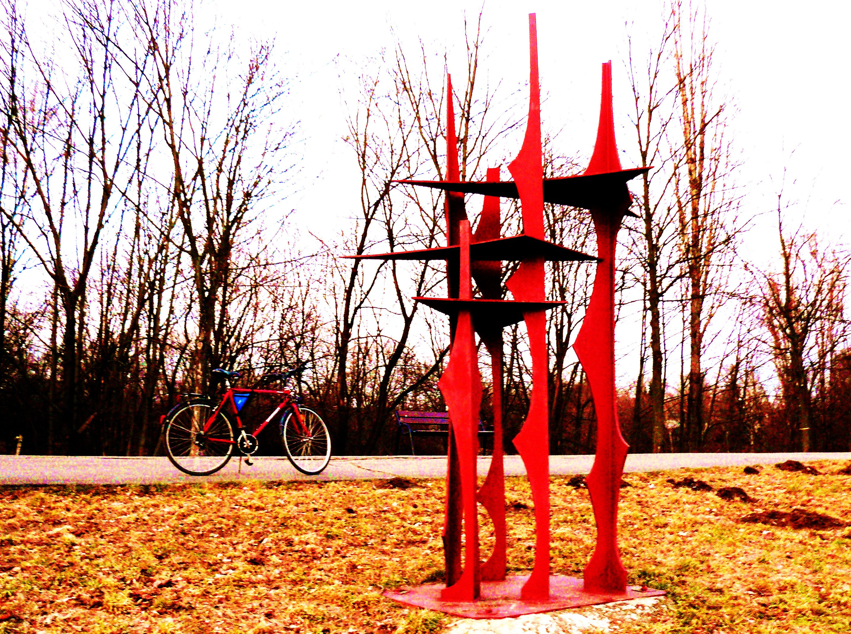 Red Composition. Poznan, Cytadela Park.